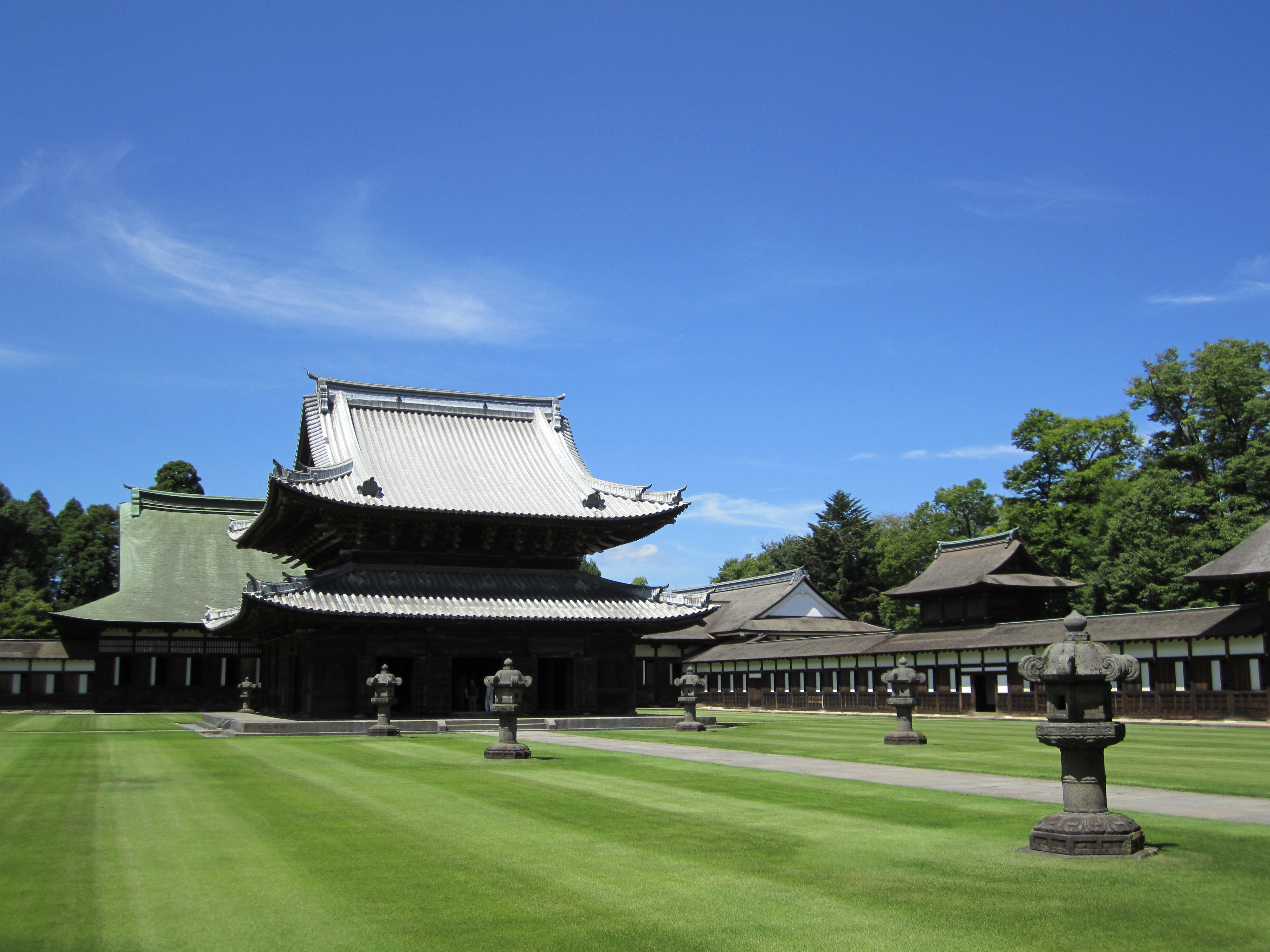 Zuiryuji Temple